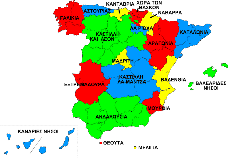 Map of the Autonomous communities of Spain in Greek